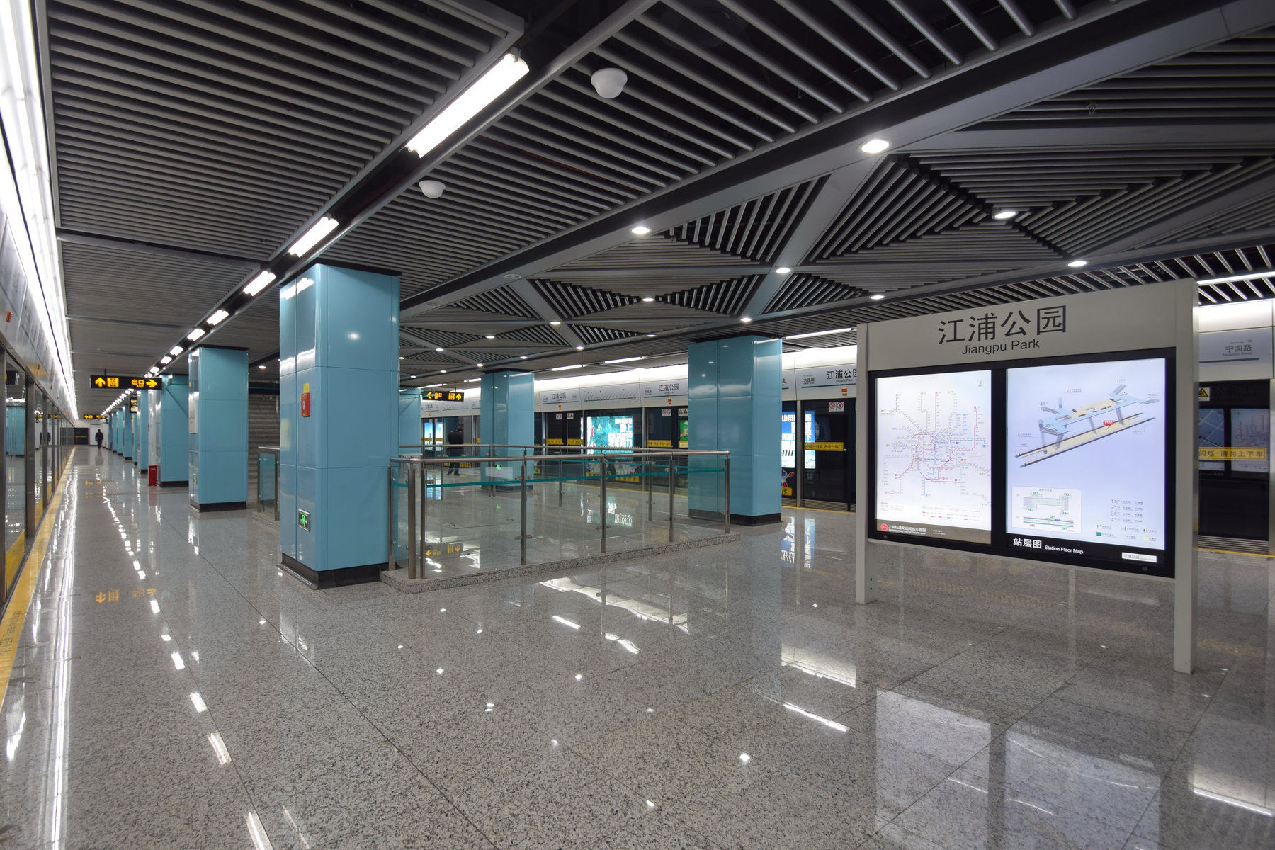 Line 12 Platform of Jiangpu Park Station, Shanghai Metro